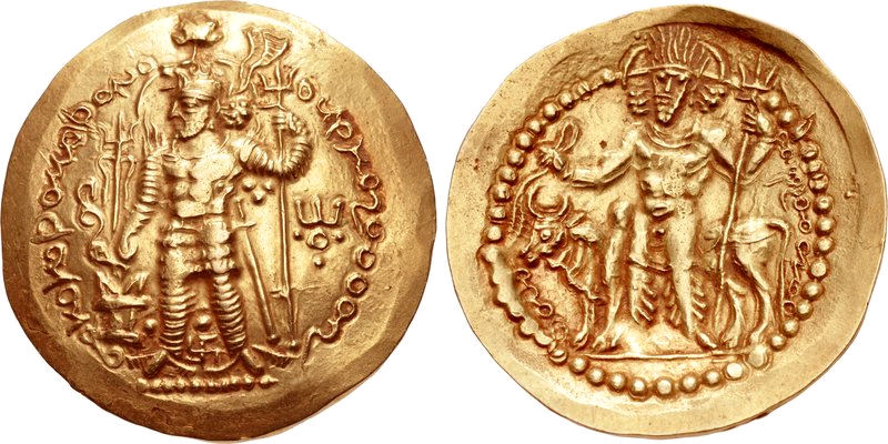 Hormizd I Kushanshah circa AD 285-300. AV Dinar (28mm, 7.90 g, 12h). Cribb Variety II. Mint C. 4th emission. Ohrmazd standing left, wearing lion-head crown with korymbos and ribbons, flames at shoulders, holding trident and sacrificing at altar; to left, filleted trident standard, Buddhist triratana (“Three Jewels”) to right; at feet, pellet to right of altar; between legs, pellet above swastika; triple pellets below left upper arm / Siva standing facing on ground line, holding trident; behind, the bull Nandi standing left.